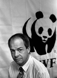 Claude Martin